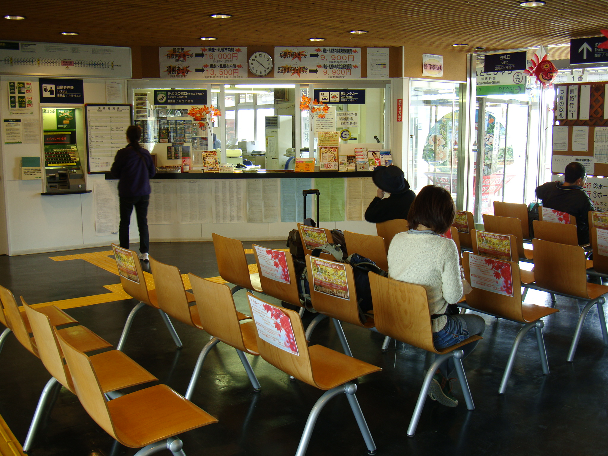 Shiretoko-Shari Station